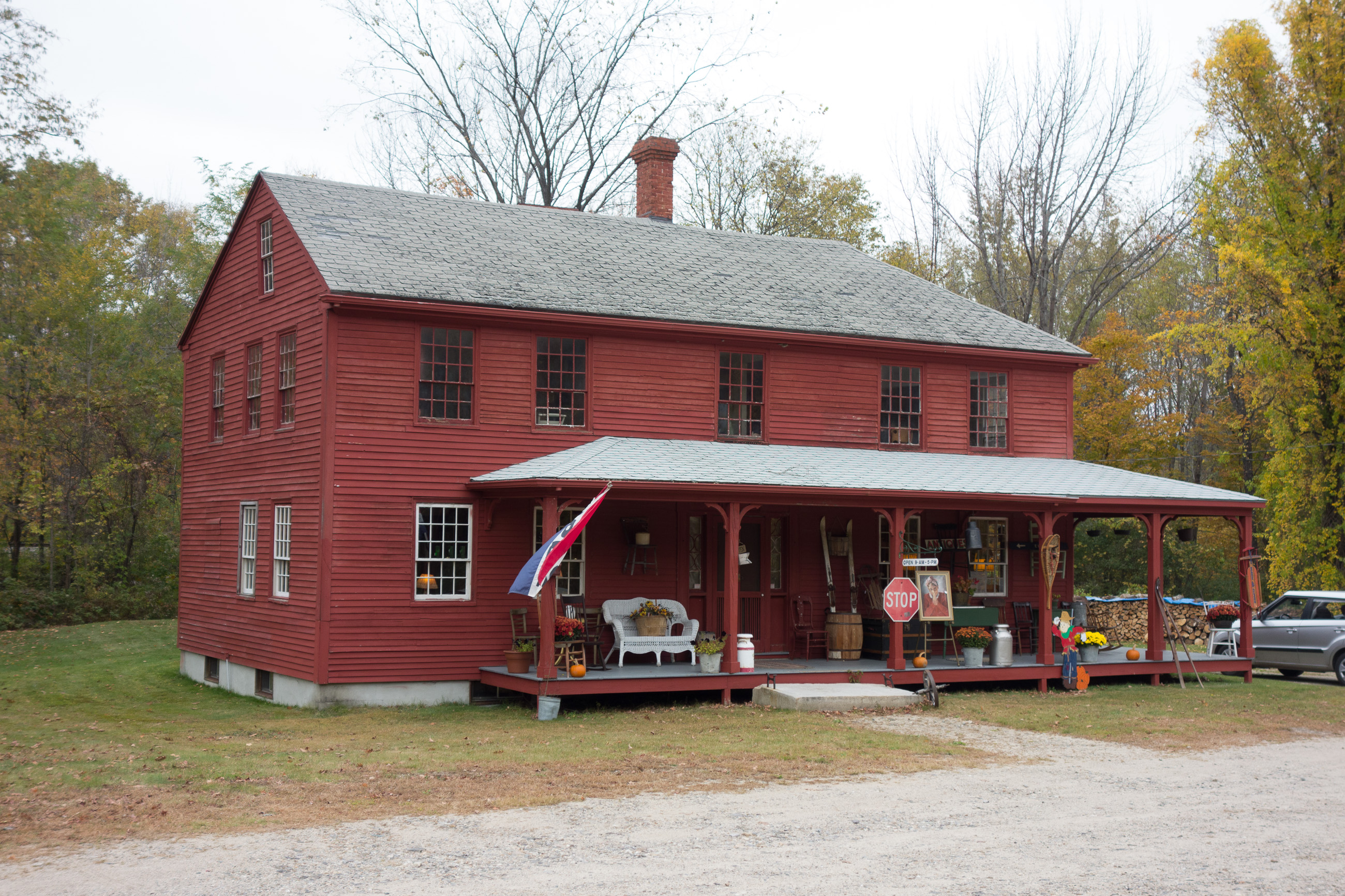 Peabody Tavern, East of Gilead on U.S. 2. National Register of Historic Places.